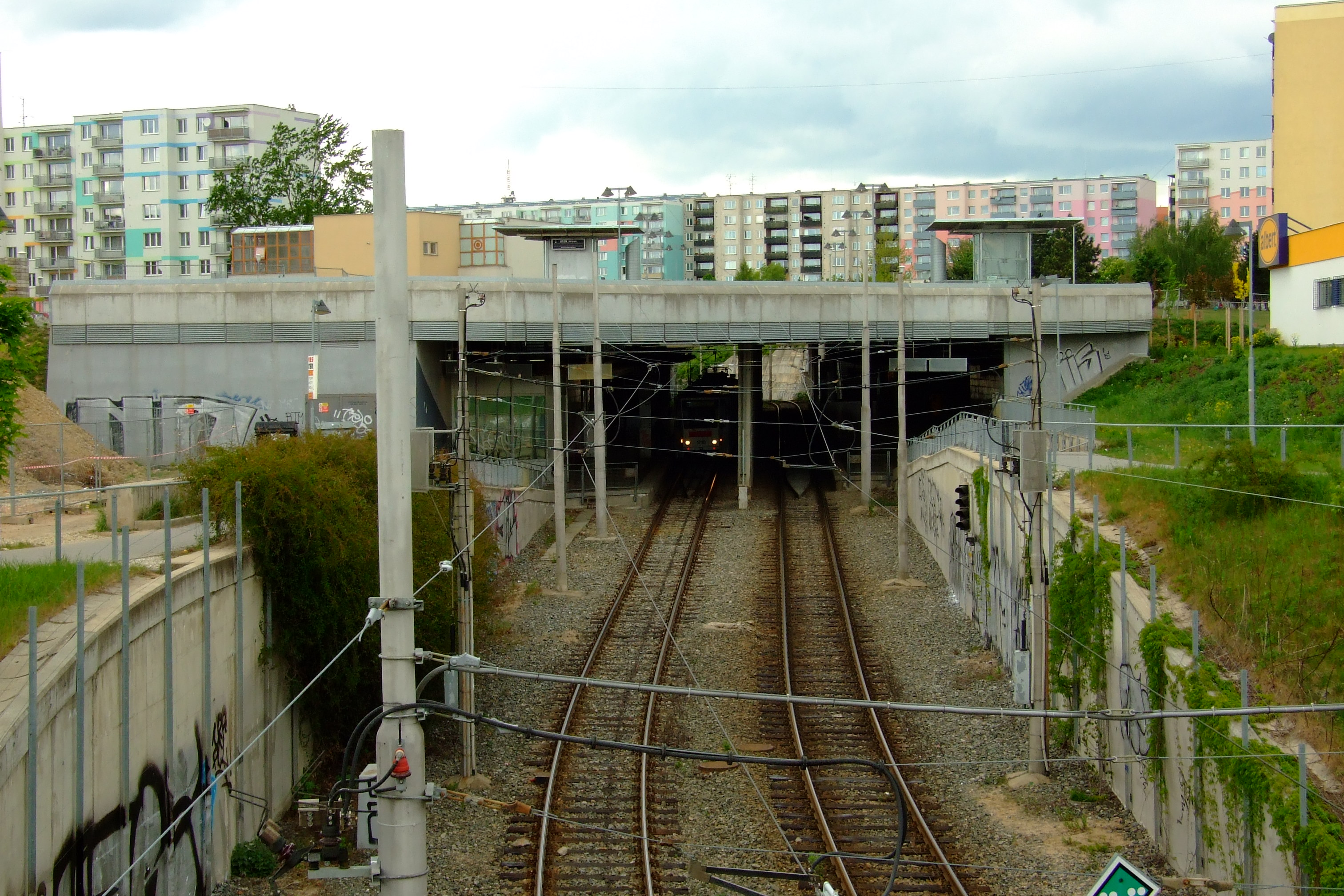 View on the south enterance to underground tram station in Brno-Líšeň